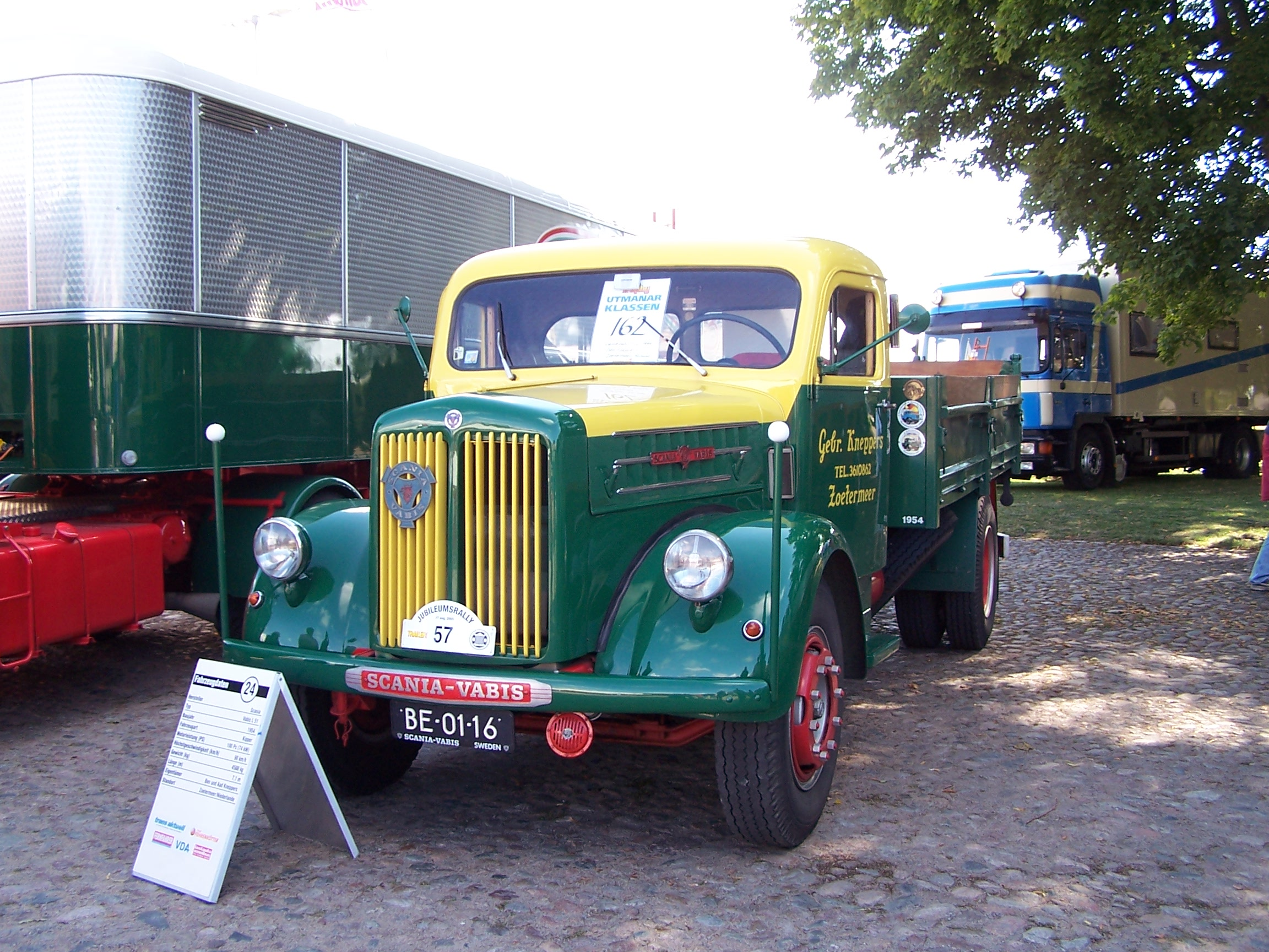 Scania Vabis L51 (1954).